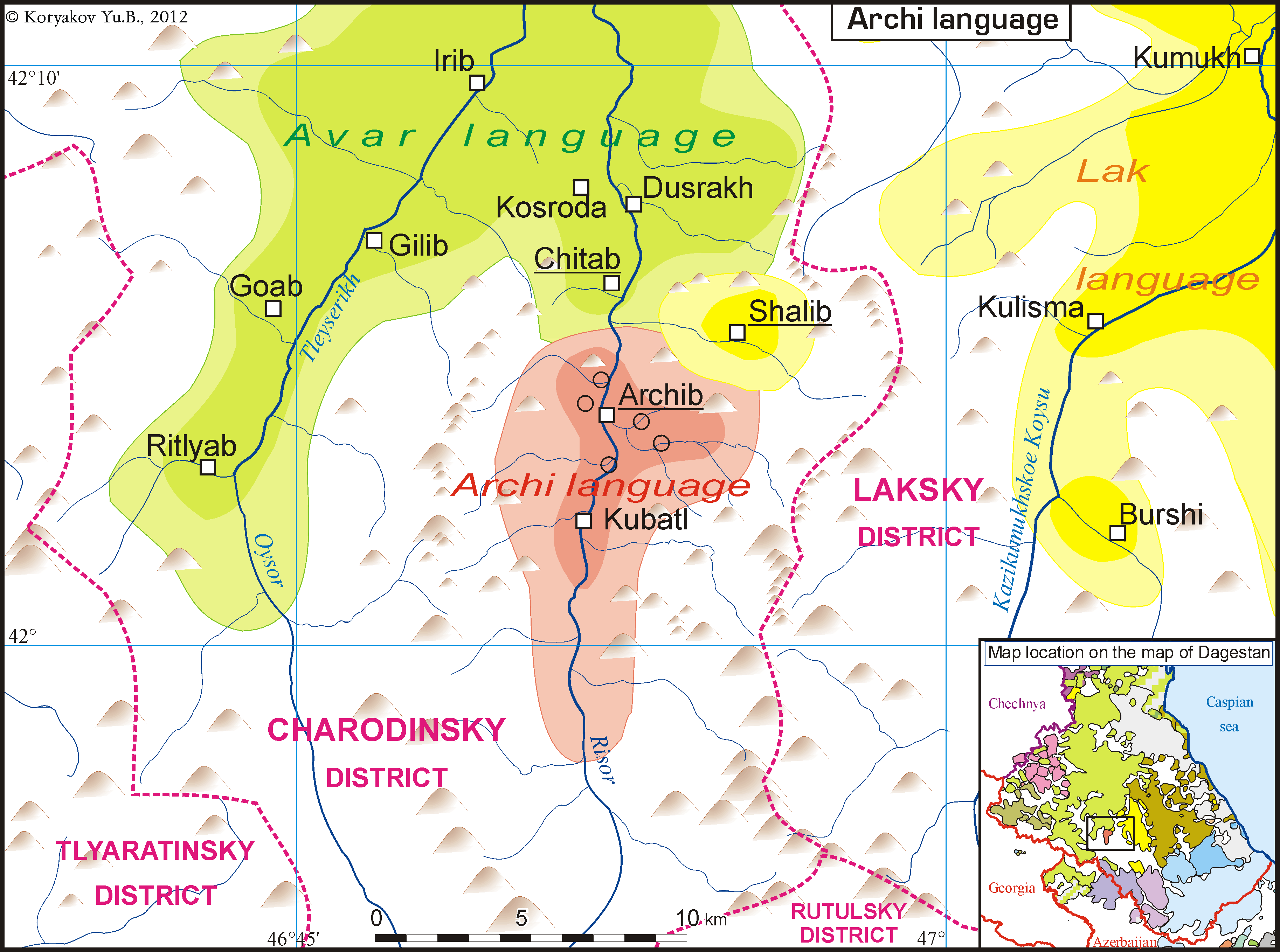 Map of Archi language and neighbouring villages.